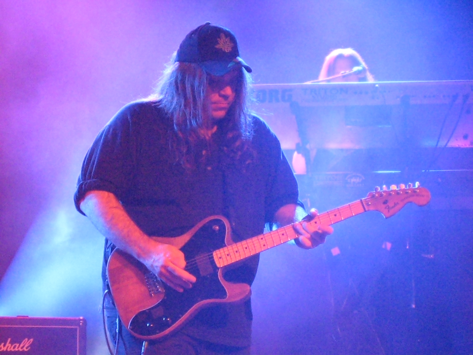 Jon Oliva's Pain on stage at ProgpowerUK 2, Cheltenham, England. March 31st 2007.